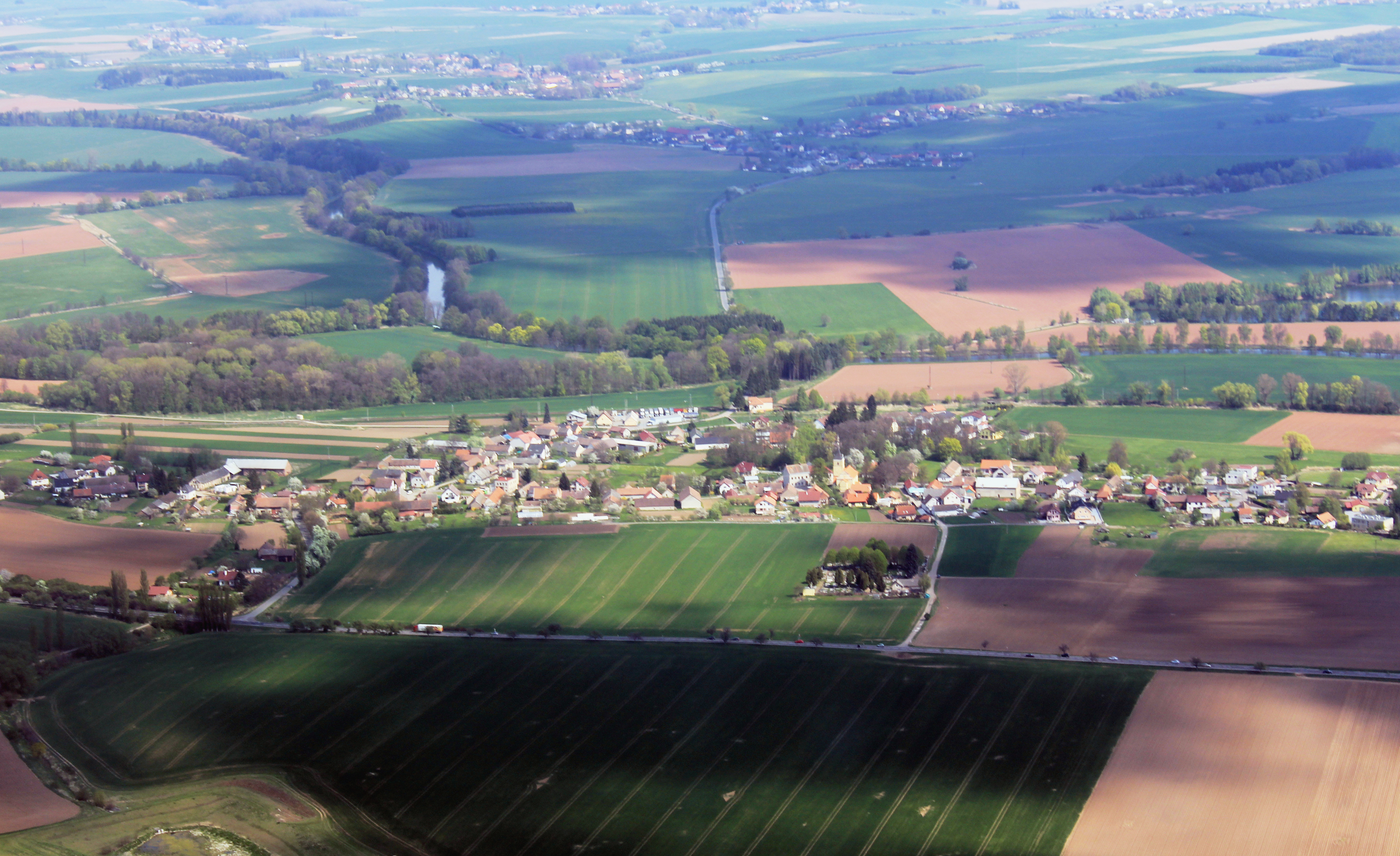 Village Lochenice from air, eastern Bohemia, Czech Republic